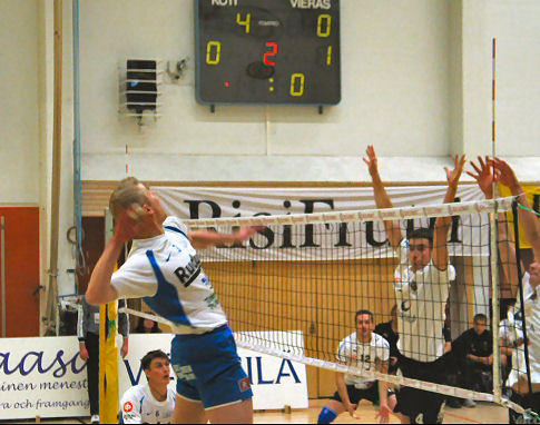 Finland volleyball player Tuomas Ruuska. Nurmon Jymy volleyball team (lentopallo).